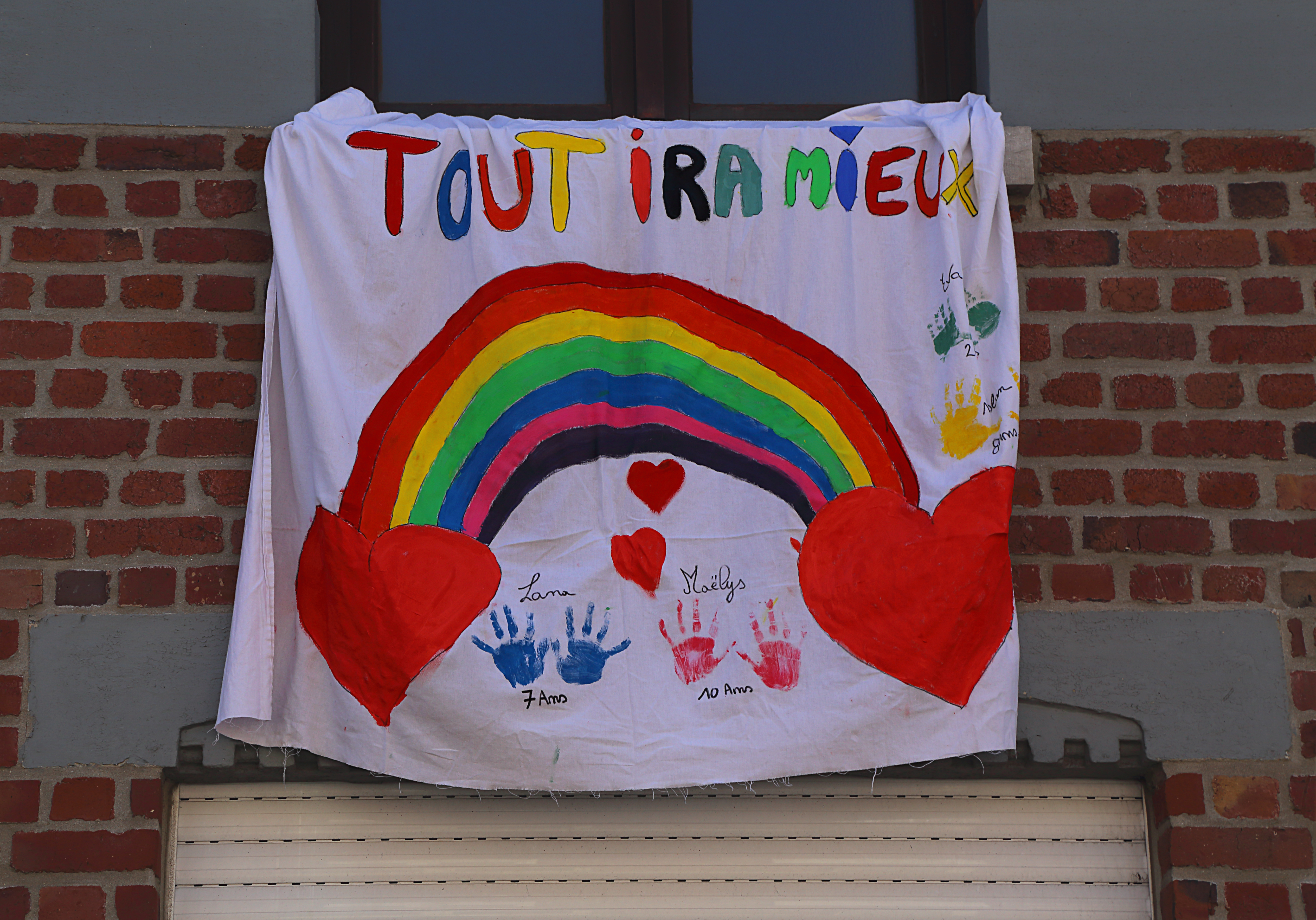 Banner (Tout ira mieux / Things will get better) on a facade during the containment period (Covid-19) in Mouscron, Belgium.